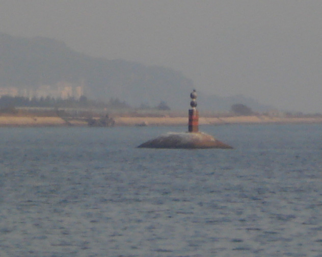 Kowloon Rock